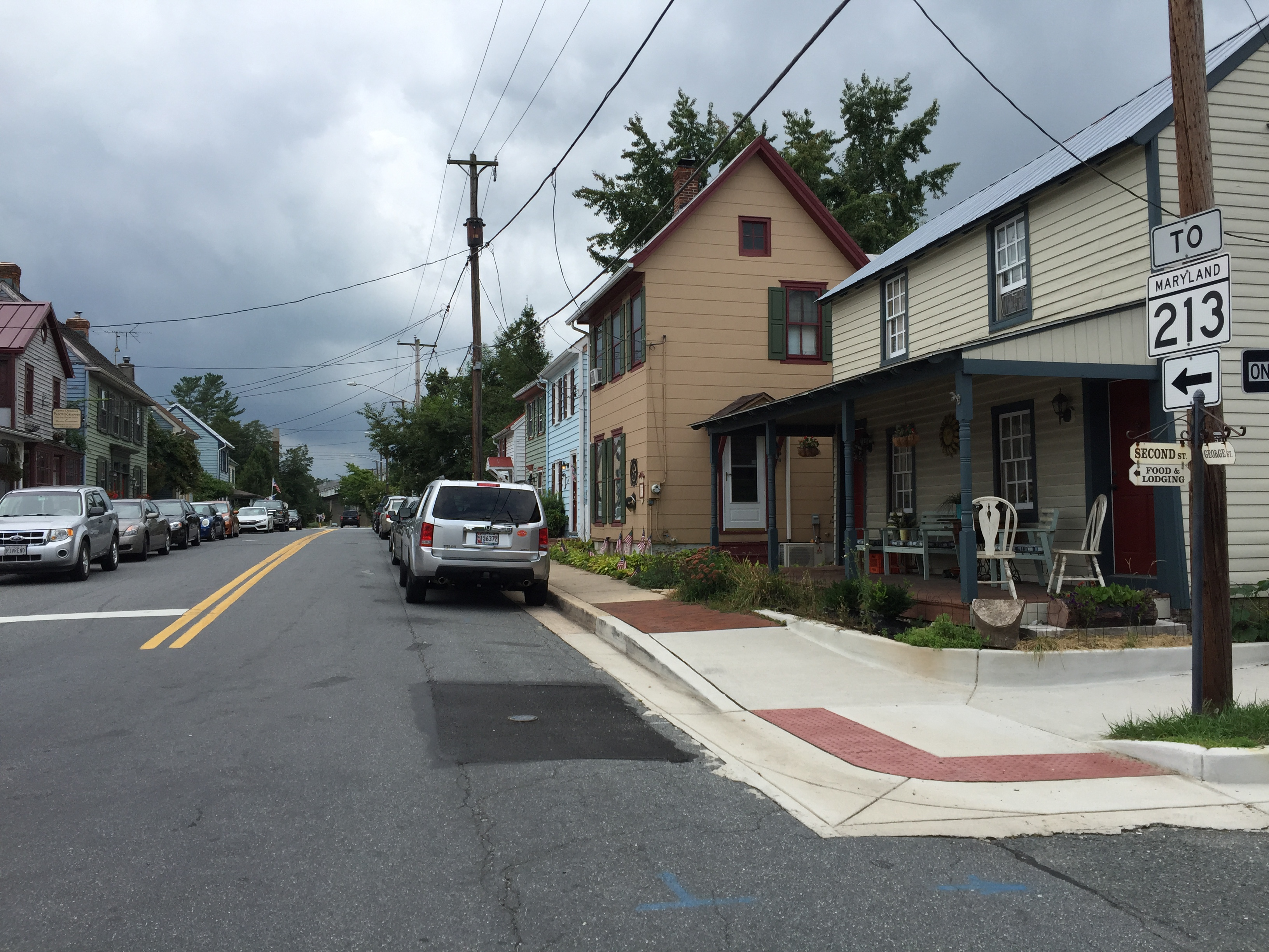 View south along Maryland State Route 537 (George Street) at Maryland State Route 286 (Second Street) in Chesapeake City, Cecil County, Maryland